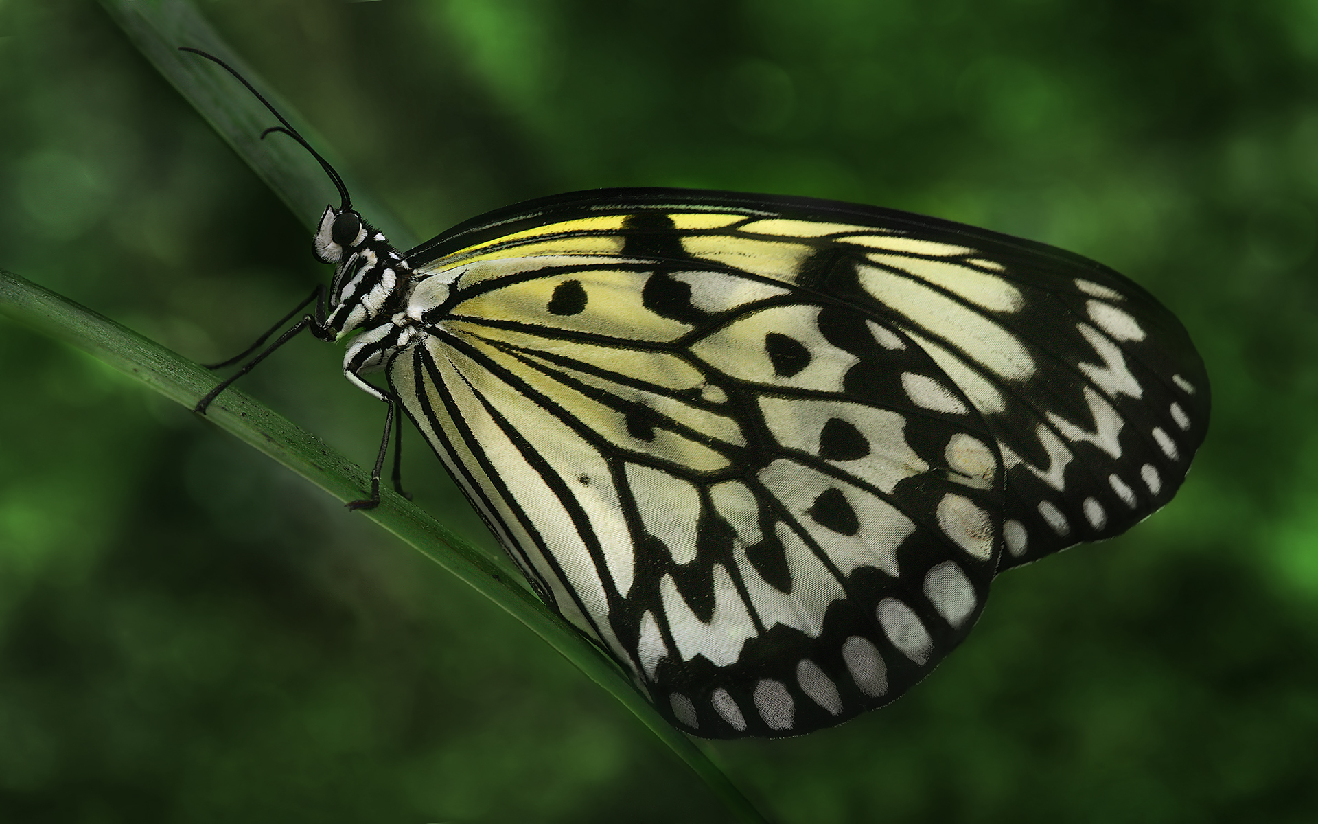 Paper Kite or the Rice Paper butterfly Idea leuconoe is known especially for its presence in butterfly greenhouses and live butterfly expositions. The Paper Kite is of Southeast Asian origin..